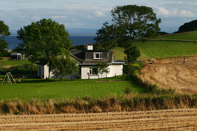 House at Old Shandwick This house at Old Shandwick was taken from the footpath leading to Clach a'Charridh pictish stone. The figure with the two dogs on the right adds an extra touch of human interest.